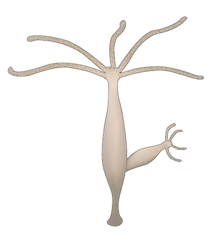 hydra